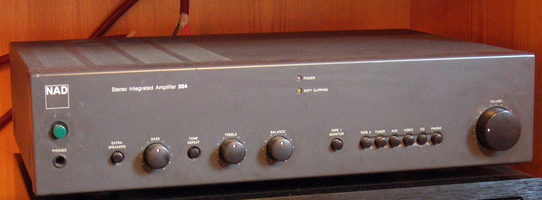 NAD Electronics - Stereo Integrated Amplifier 304